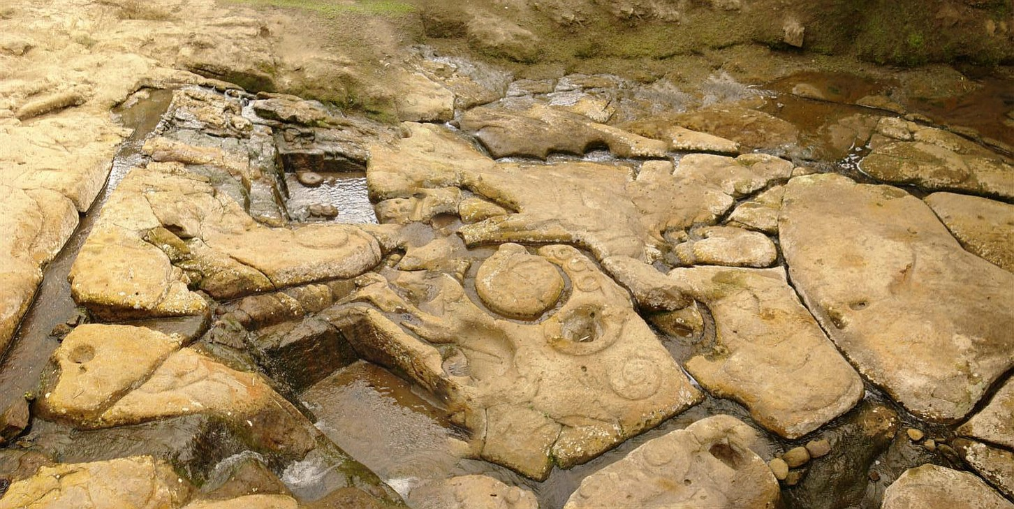 Fuente de Lavapatas: relief images of (mostly) animals, using the natural shapes in the rock.